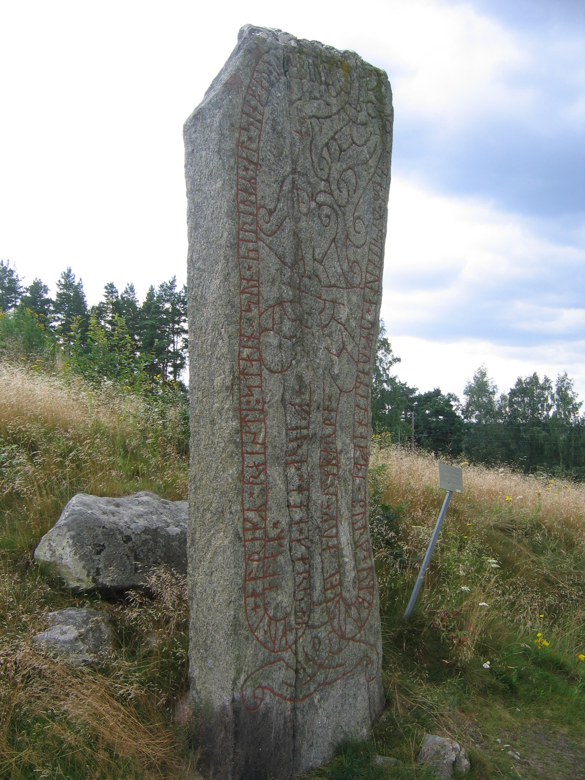 Runestone Sö 106 in Kjula, Eskilstuna Municipality